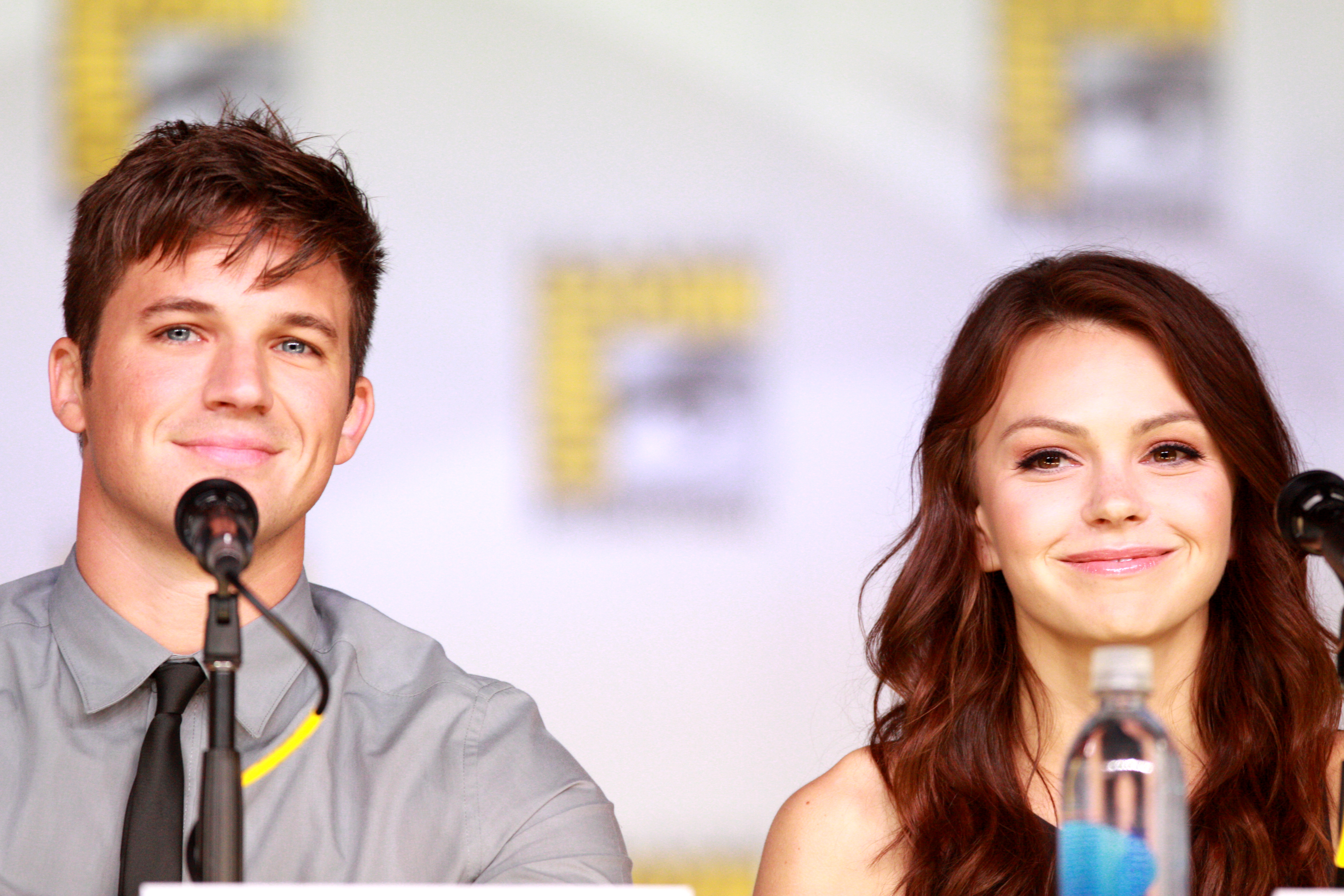 Matt Lanter and Aimee Teegarden speaking at the 2013 San Diego Comic Con International, for "Star-Crossed", at the San Diego Convention Center in San Diego, California.